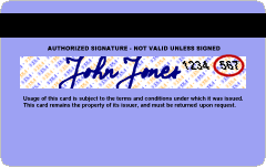 Sample VISA, MasterCard or Discover Card featuring the Card Security Code on the back (circled in red). Created by Sergio Ortega on August 4, 2006, based on existing standards.